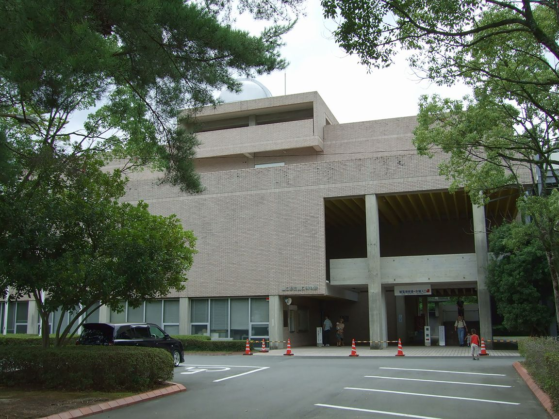 Yamaguchi Museum